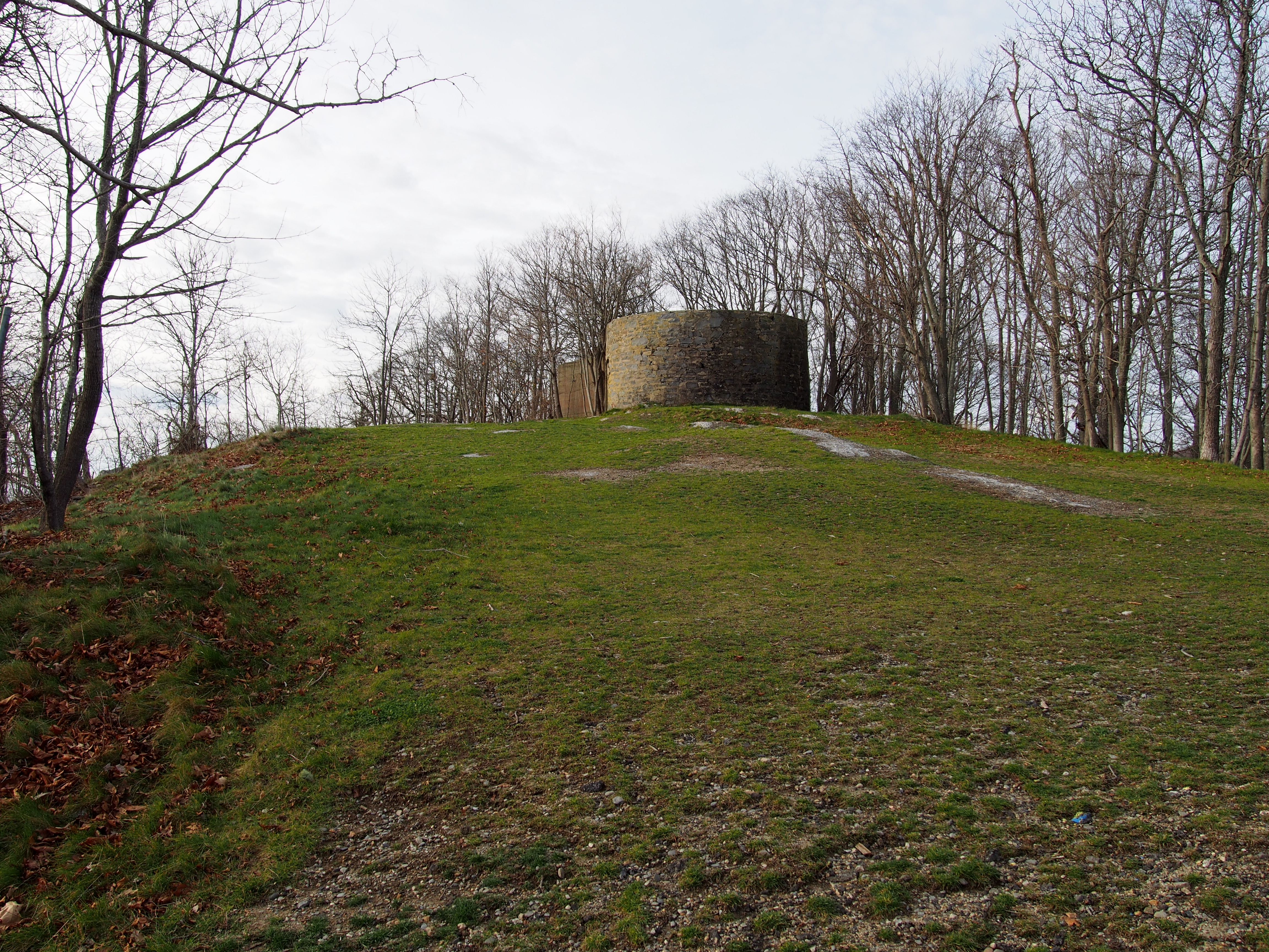 Base of the former observation tower water tank (now ruins) at Rocky Point State Park in Warwick, Rhode Island. Update: according to this article in the Warwick Beacon, it's not actually the observation tower but a former water tower.